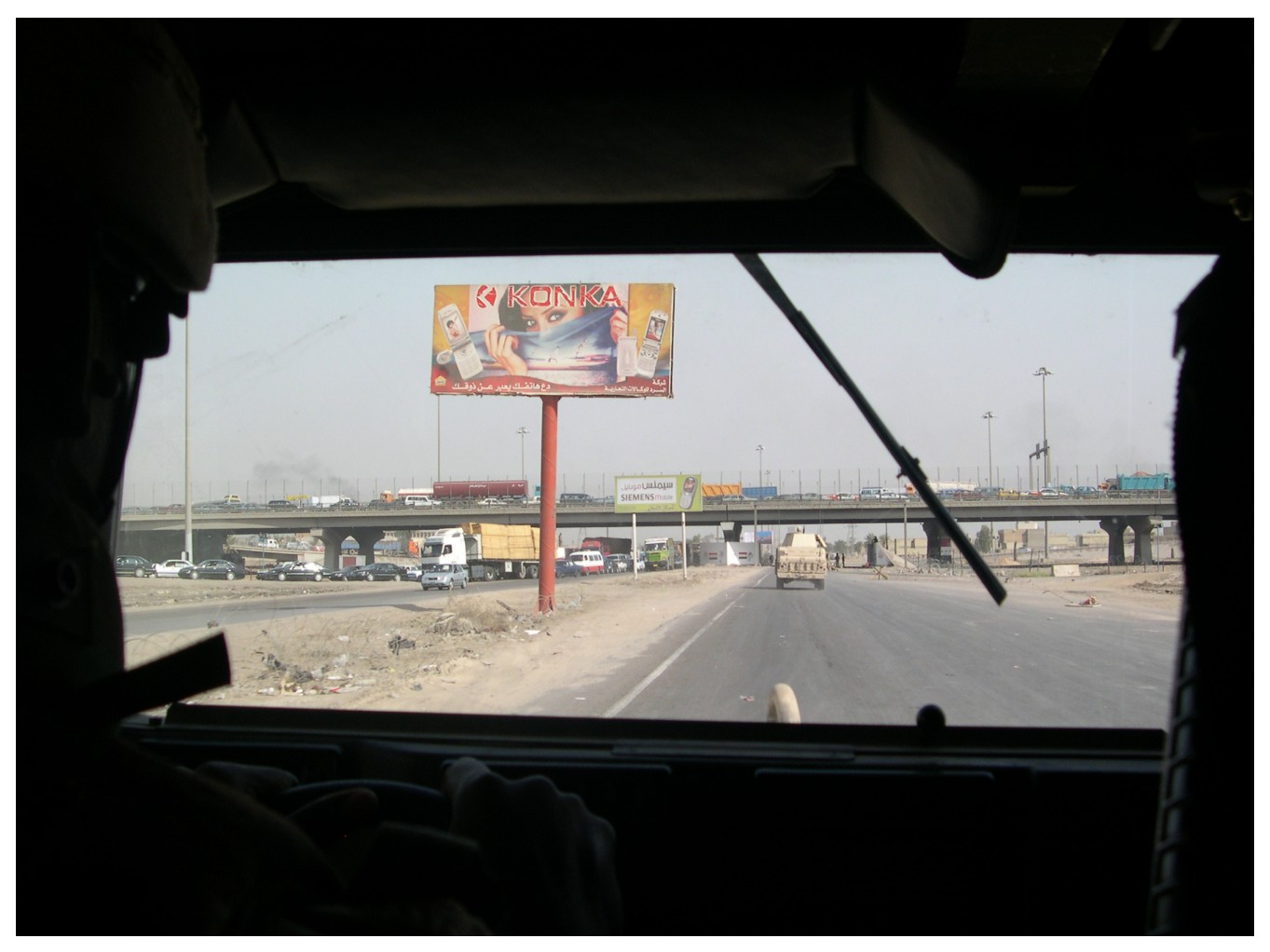 A view through the windshield of a U.S. Army HMMWV traveling in a convoy in Baghdad, Iraq (April 2005).